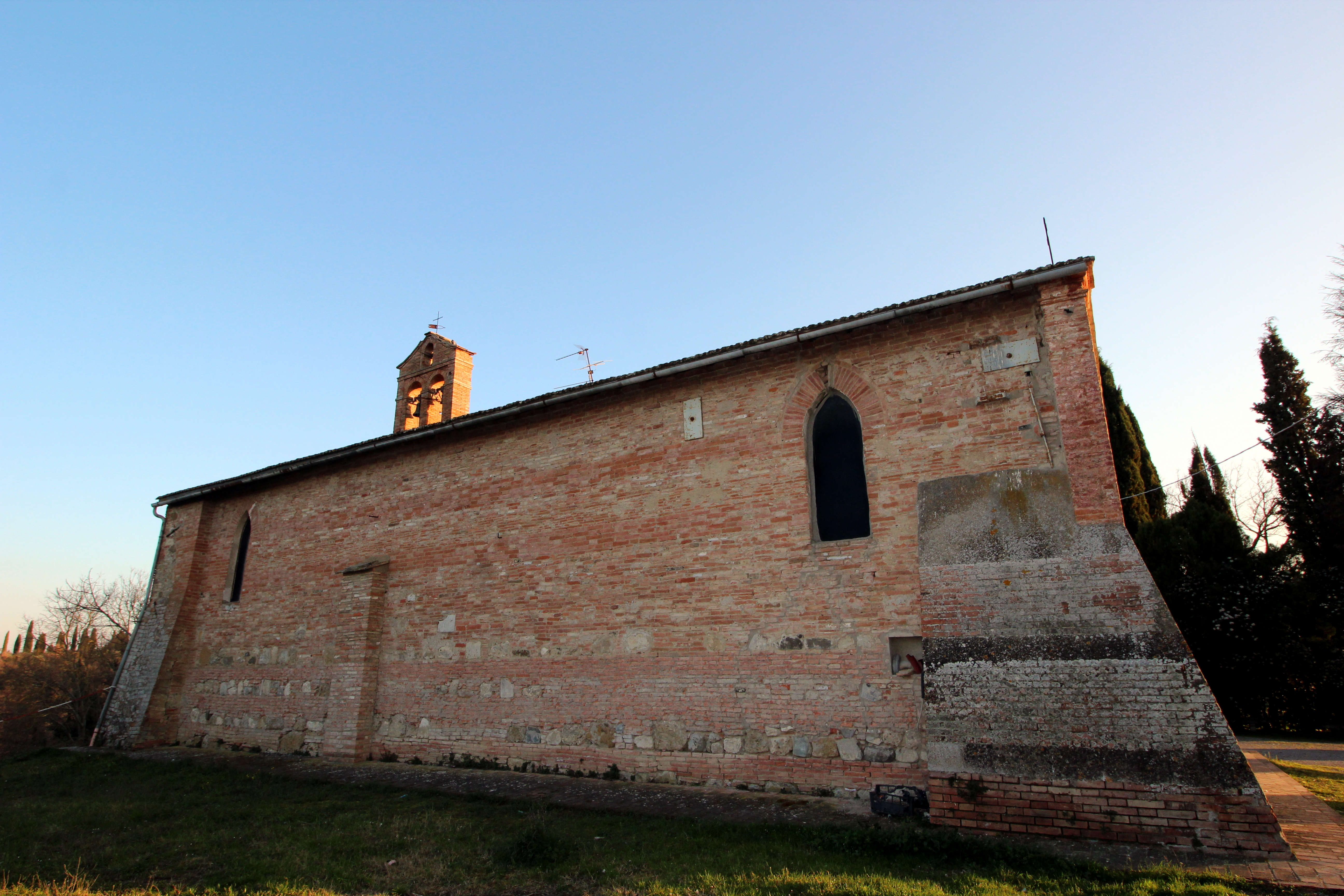 Church San Pietro Apostolo, Macciano, hamlet of Chiusi, Province of Siena, Tuscany, Italy